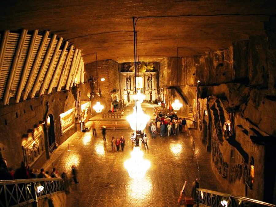 The Chapel of Saint Kinga in wieliczka, Poland